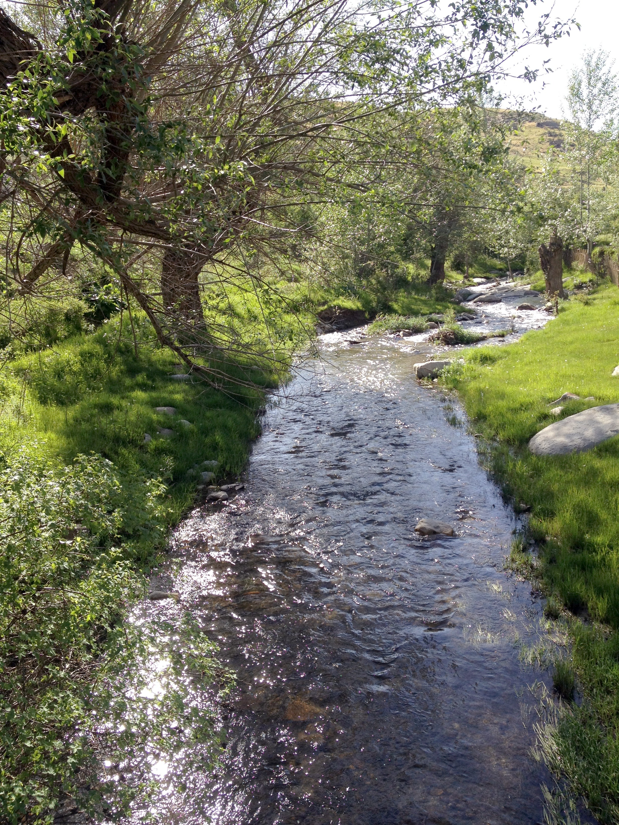 Ustuk river (name of Beklar river in higher reaches) in Ustuk village